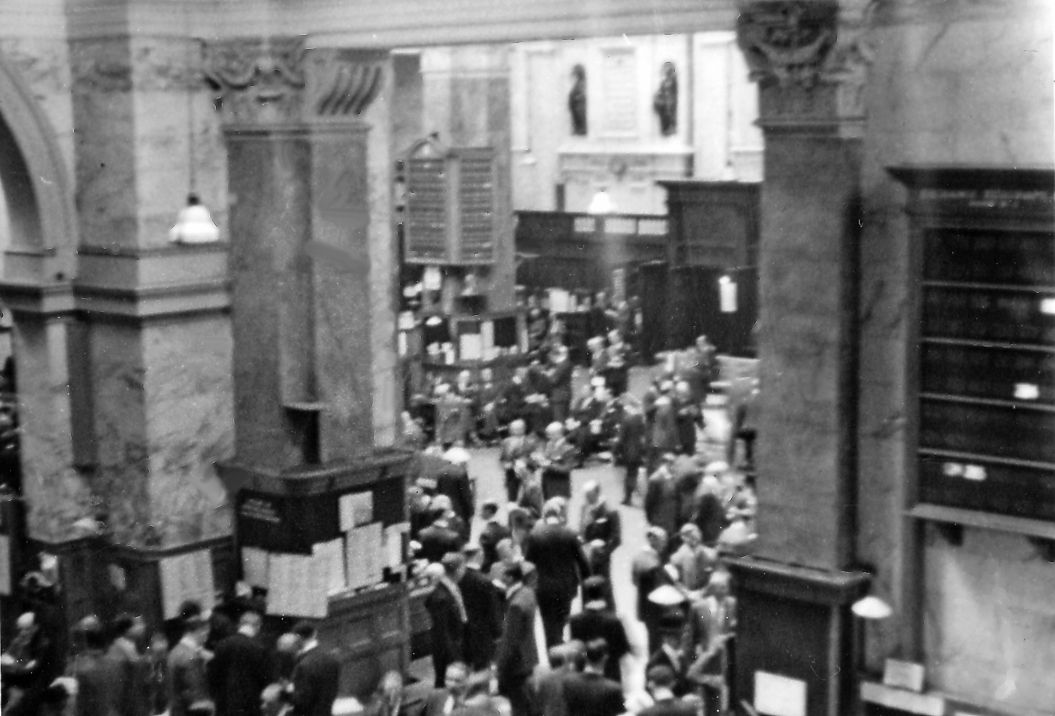 Trading Floor at the London Stock Exchange, in 1955 - well before modern transformations. This is in the old building in Threadneedle Street, long before the rebuilding of 1973, the deregulation 'Big Bang' of 1984 and the move to Paternoster Square in 2004.